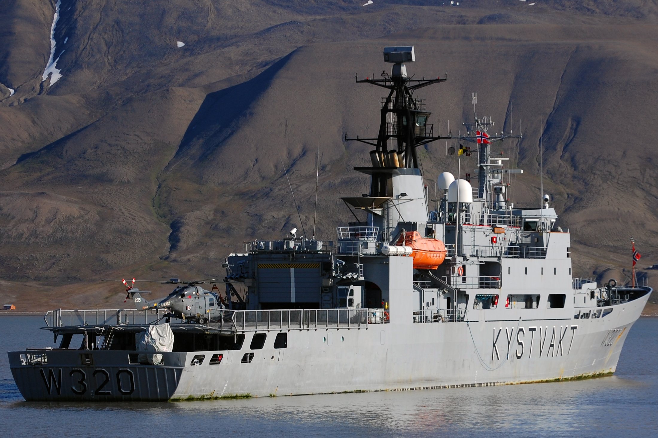 Patrolvessel KV Nordkapp (W 320) in the Adventfjord, Spitsbergen Norsk (bokmål): Kystvaktskip KV Nordkapp (W 320) i Adventfjorden på Svalbard